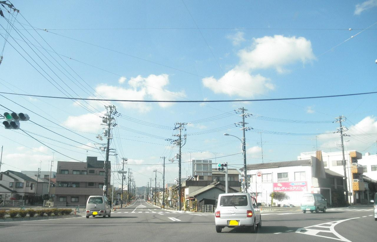 Minamikomatsushimatown Komatsushimacity Tokushimapref Tokushimaprefectural road 178 Komatsushima port Minamikomatsushima station